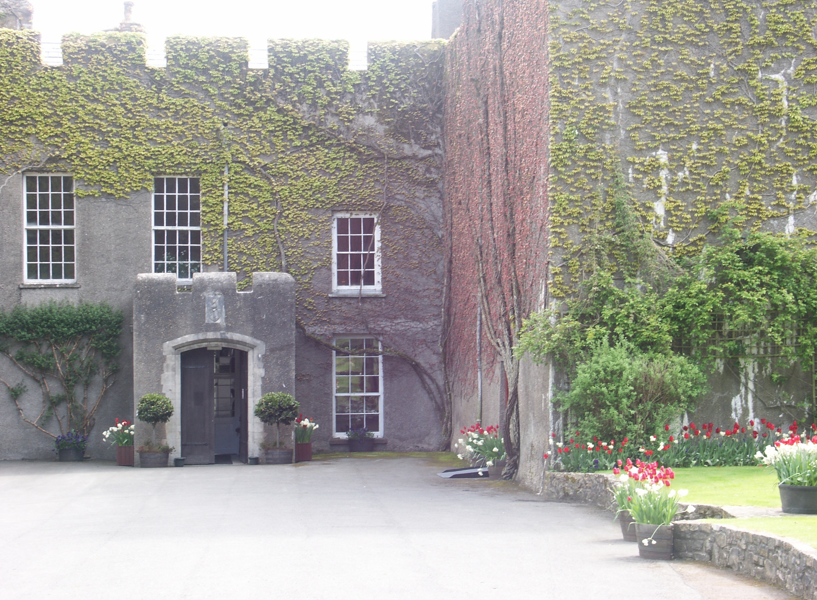 Fonmon Castle, Vale of Glamorgan, Wales